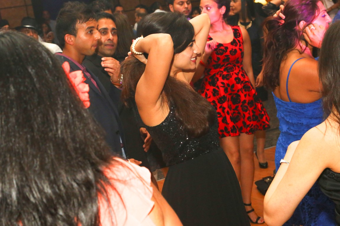 Asian Professionals at a Summer Ball in London dancing to Bhangra